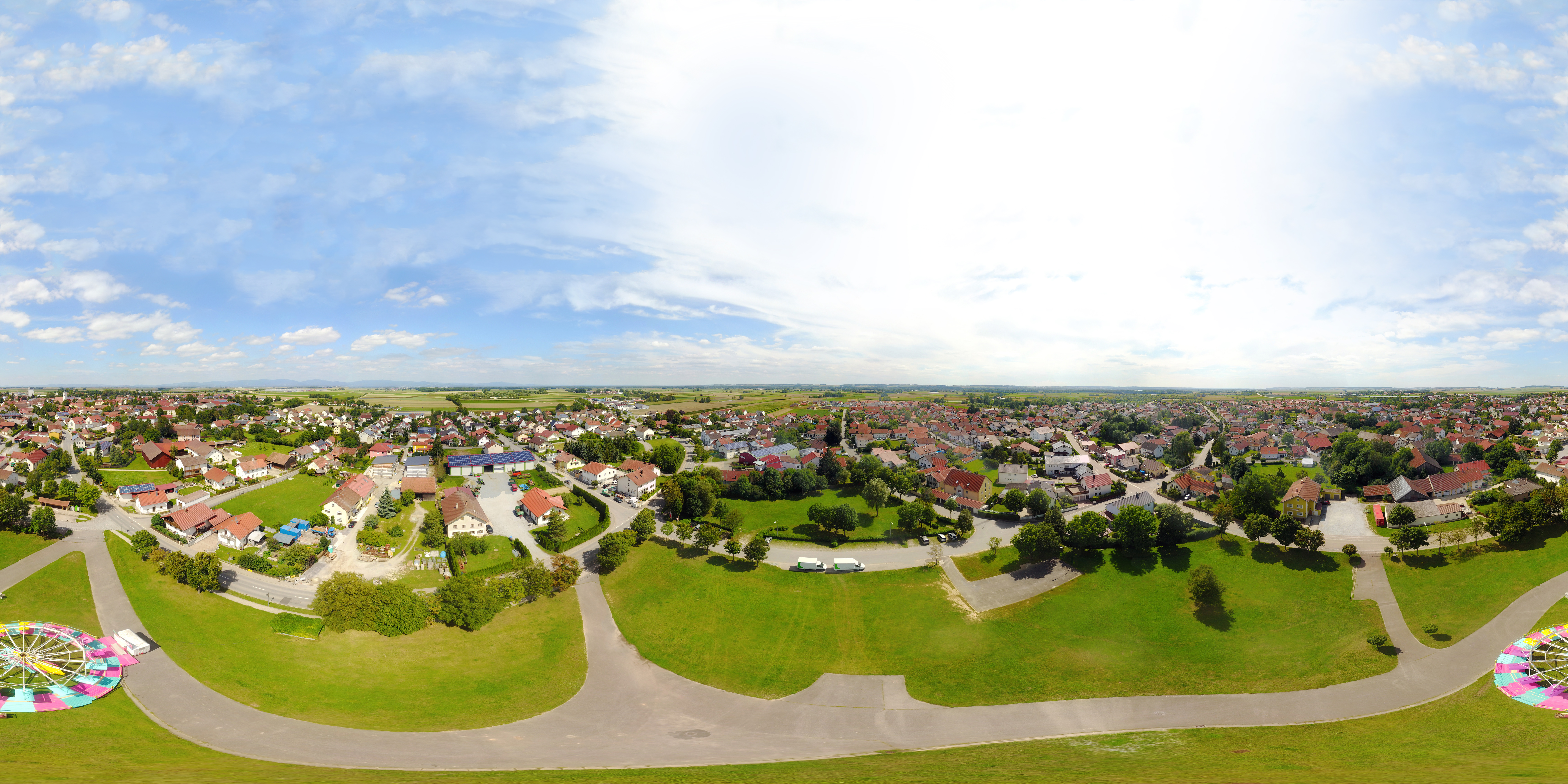 Equirectangular Panorama of Wallersdorf in Bavaria (Germany)